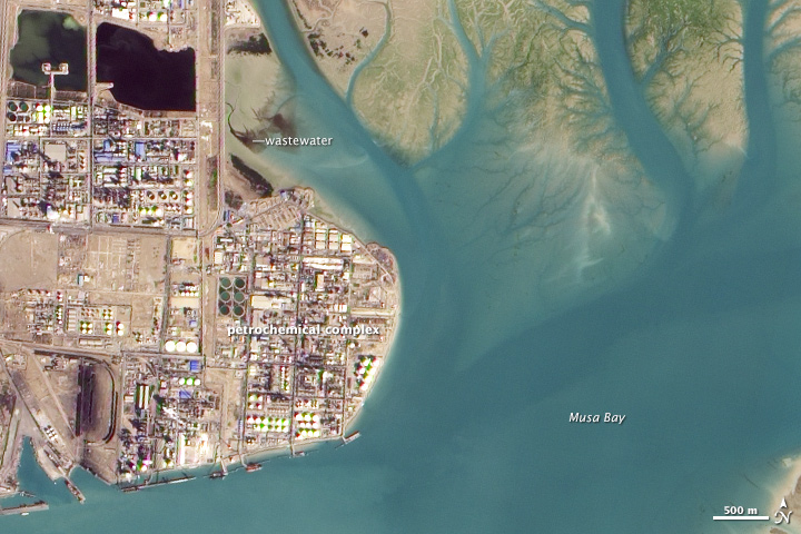 While most of the image shows water and land that is relatively untouched by human activity, the inset image below offers a more detailed view of the Bandar Imam Khomeini petrochemical complex, Iran’s largest supplier of petrochemicals to the international market. The refining facilities produce a wide variety of petroleum-based products that are turned into gasoline and other fuels, plastics, fertilizers, and industrial chemicals. While the main port complex lies just out of the scene, several docks are visible Since several petrochemical facilities release wastewater and oil tankers frequently discharge ballast water, the bay is thought to contain high levels of oil residue, tar balls, and other heavy metals. To quantify pollution levels, several groups of scientists have analyzed sediment collected from Musa Bay for signs of polycyclic aromatic hydrocarbons (PAHs) and other pollutants. Several of these studies detect pollutants at high enough levels that they could affect the ecosystem. However, pollution levels were not found to be abnormally high in comparison to other petrochemical facilities around the world. References Abdohhahi, S. et al, (2013, June 15) Contamination levels and spatial distributions of heavy metals and PAHs in surface sediment of Imam Khomeini Port, Persian Gulf, Iran. Marine Pollution Bulletin, 71 (1-2).